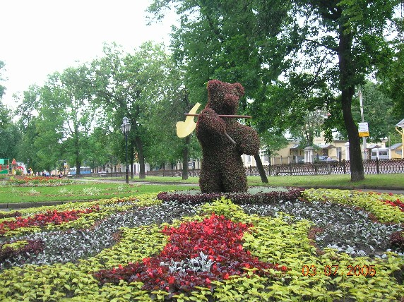 Topiary showing the heraldic emblem of Yaroslavl